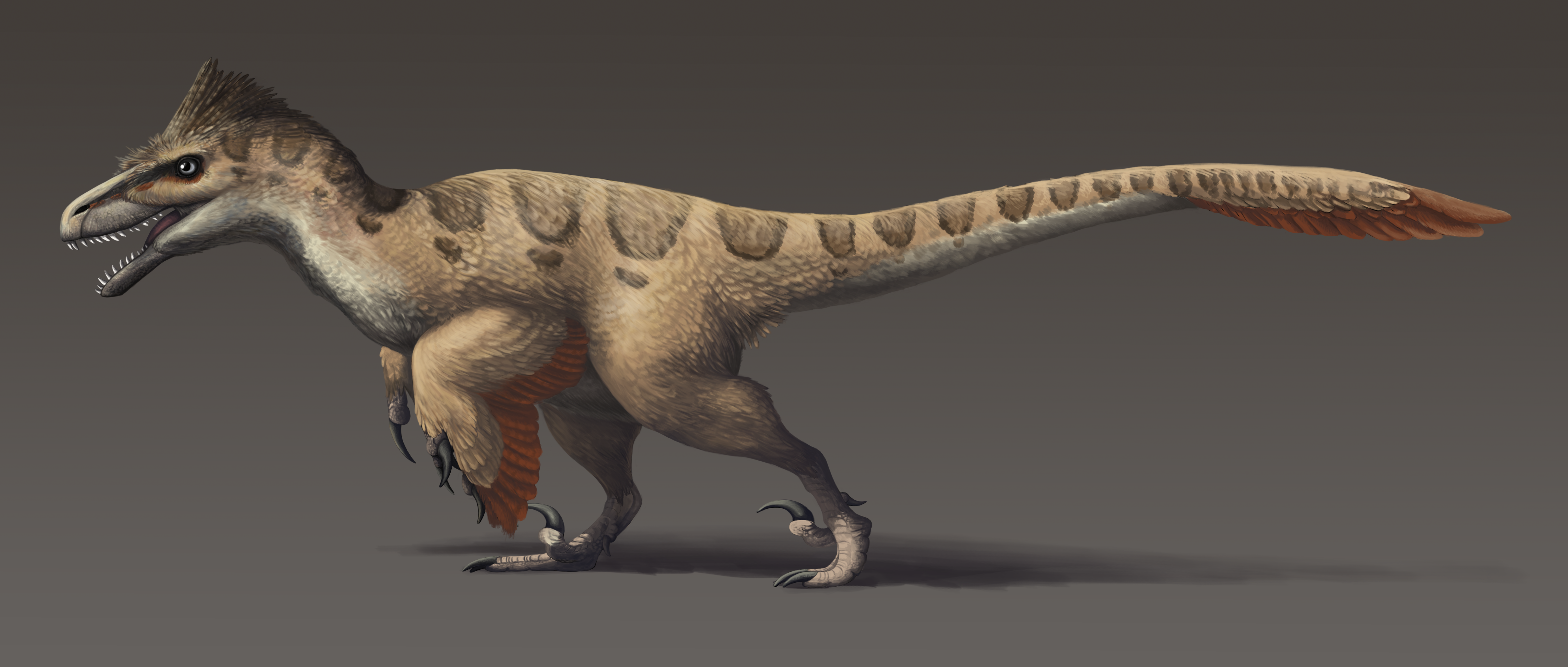 "New" and "more accurate" version of Utahraptor that incorporates currently unpublished material. Based on reference image and advice from Scott Hartman.